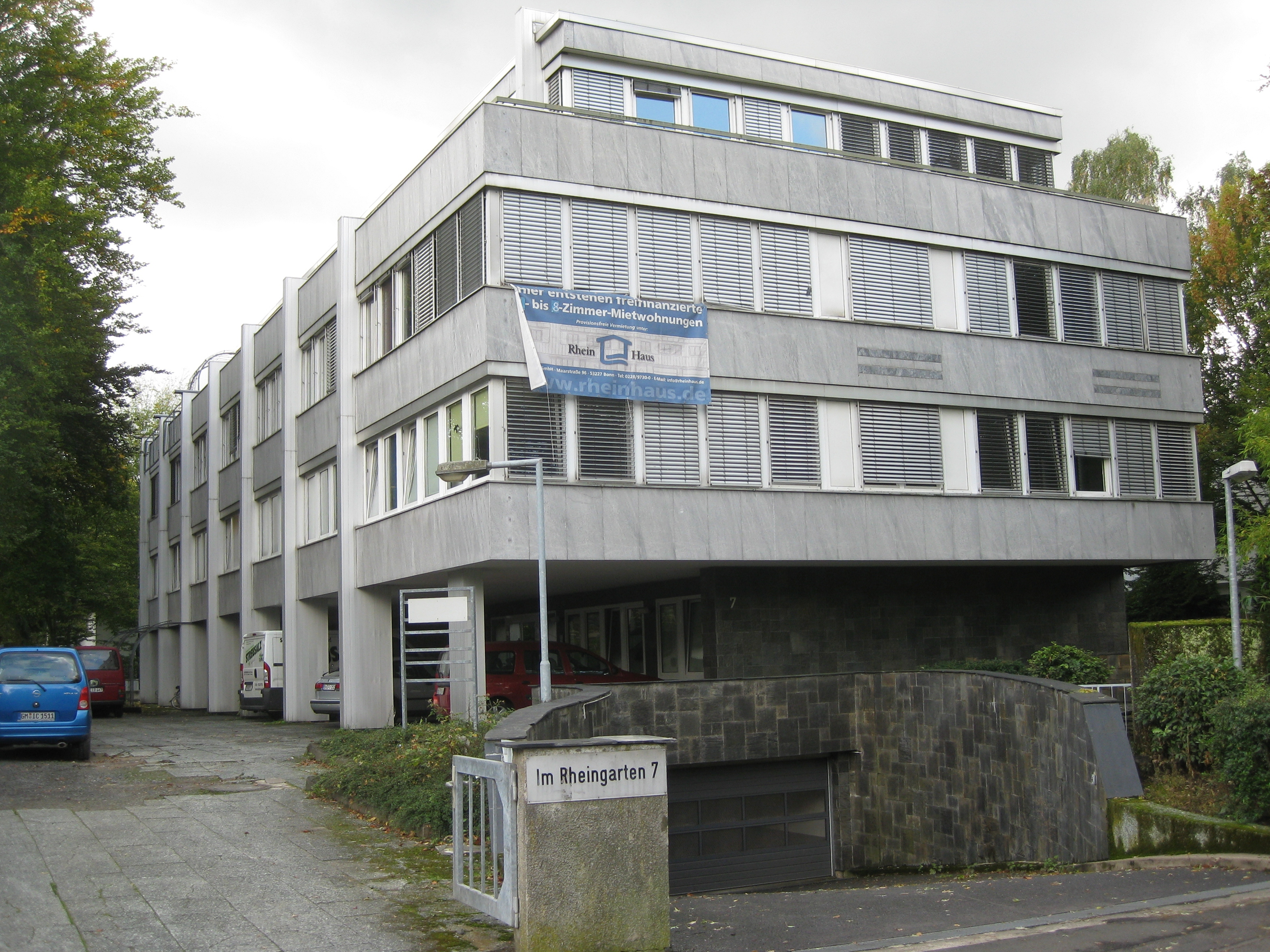 The former German Embassy of the Republic of Venezuela at Bonn-Beuel-Mitte, Im Rheingarten 7